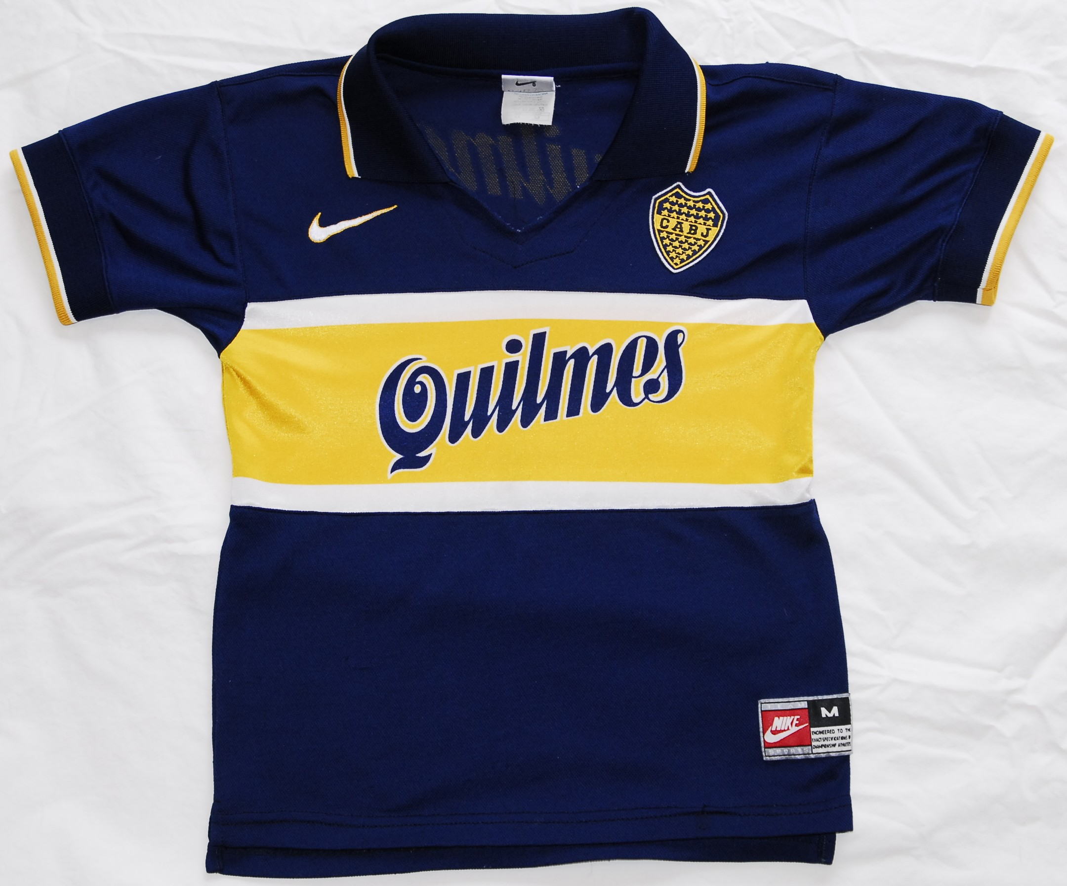 Boca Juniors 1996-1997 Home Jersey